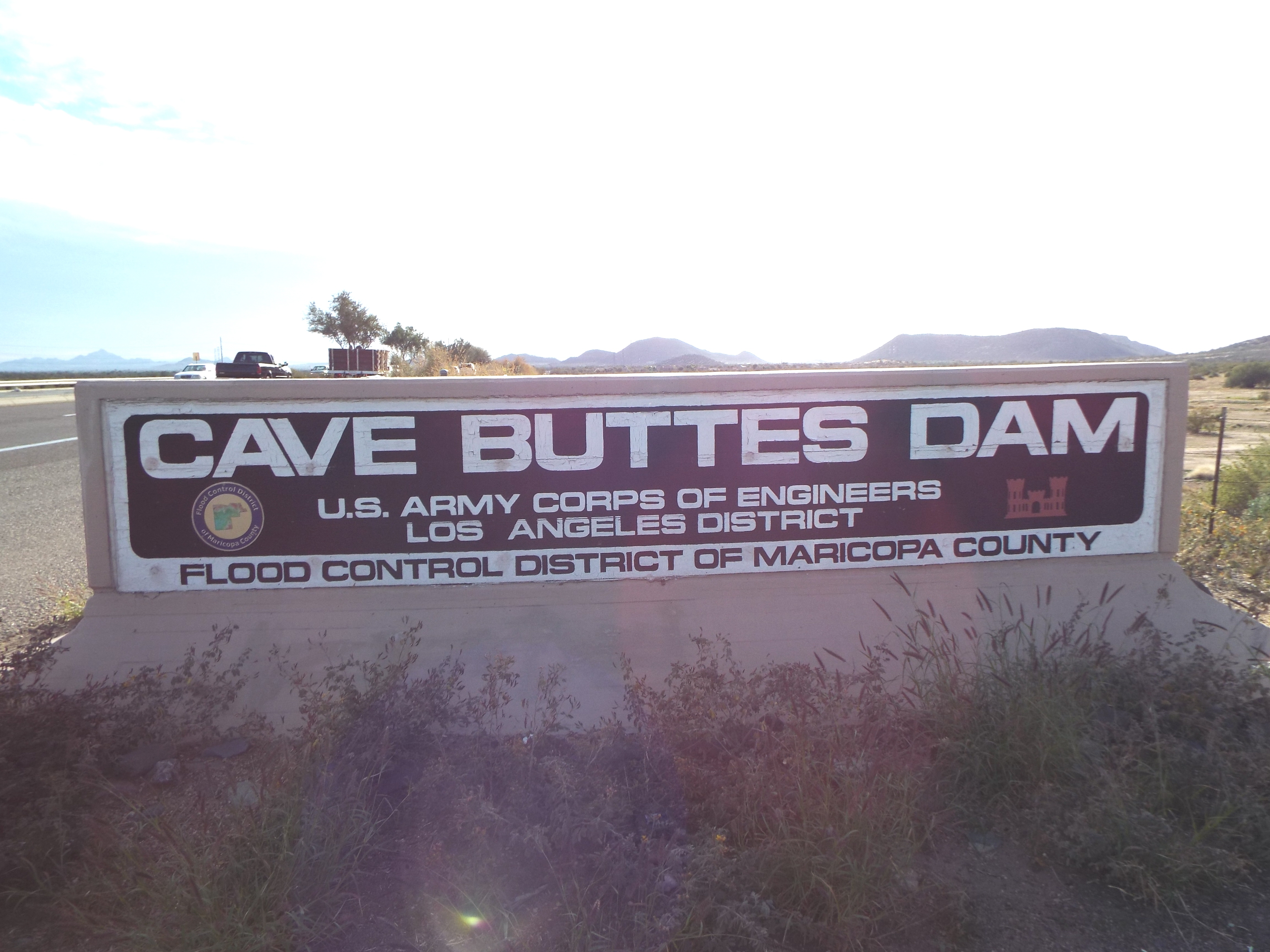 The Cave Butte Dam. The structure is an earthen dam located near Cave Creek, Arizona. Built in 1979, by the U.S. Army Corps of Engineers, the dry dam was built to replace the nearby Cave Creek Dam.